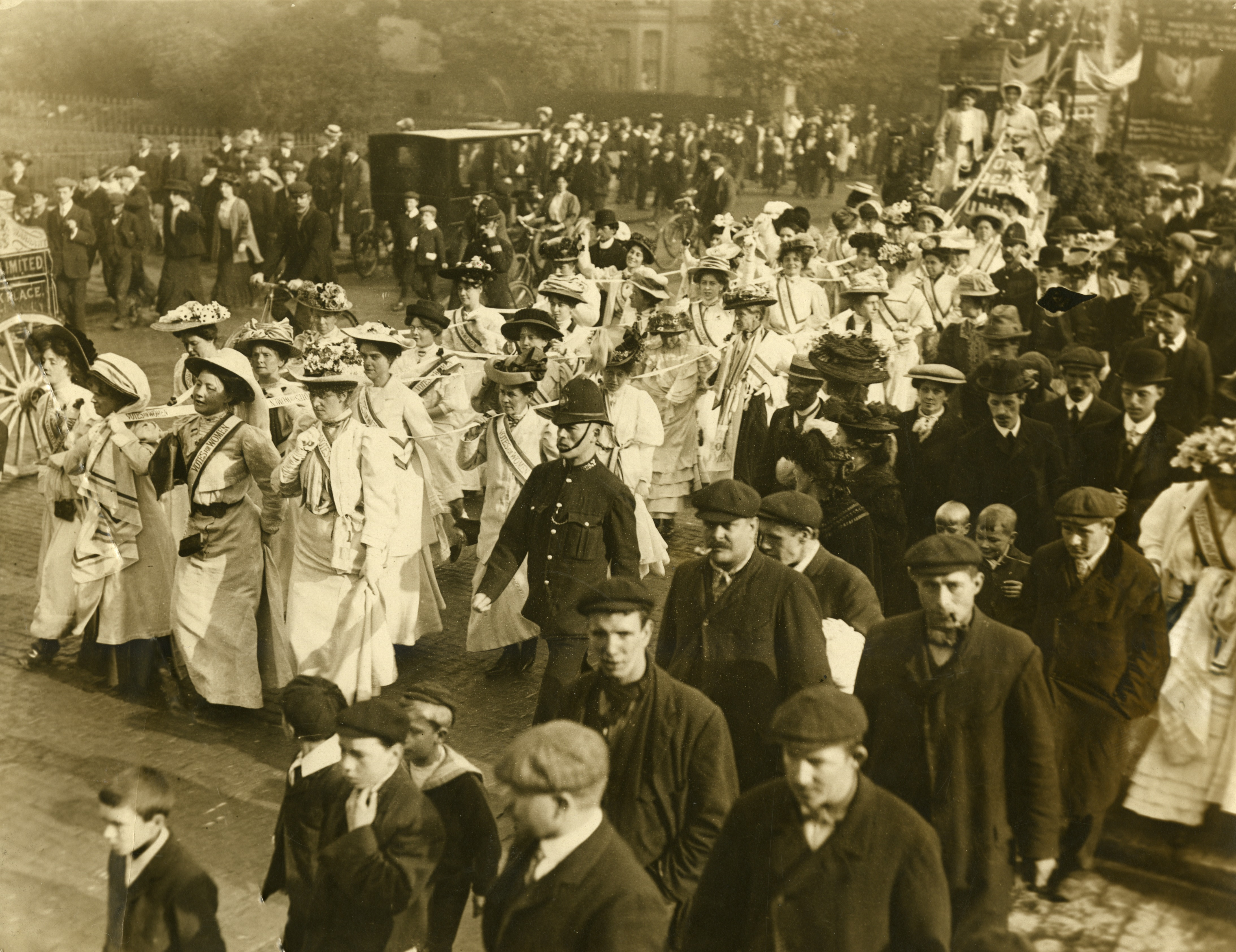 7JCC/O/02/047 Photograph, printed, paper, monochrome, three rows of women dressed in white wearing 'Votes for Women' sashes and holding 'Votes for Women' ribbons over their shoulders, 'pulling' a carriage at the rear of the procession; printed inscription on reverse 'Copyright: World's Graphic Press Limited, 36-38 Whitefriars Street, Fleet Street, London EC. Please Acknowledge'. The image shows one of the Womens Social & Political Union (WSPU) teams that drew the carriage of released prisoners away from Holloway